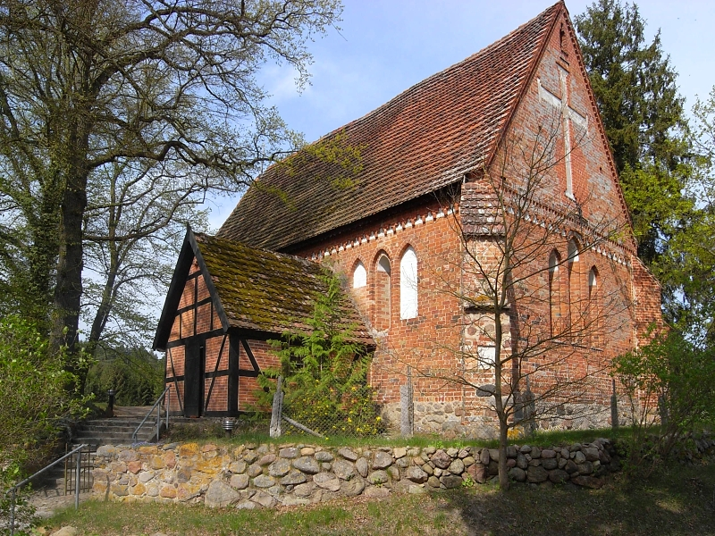 Church in Kirch Rosin, district Güstrow, Mecklenburg-Vorpommern, Germany